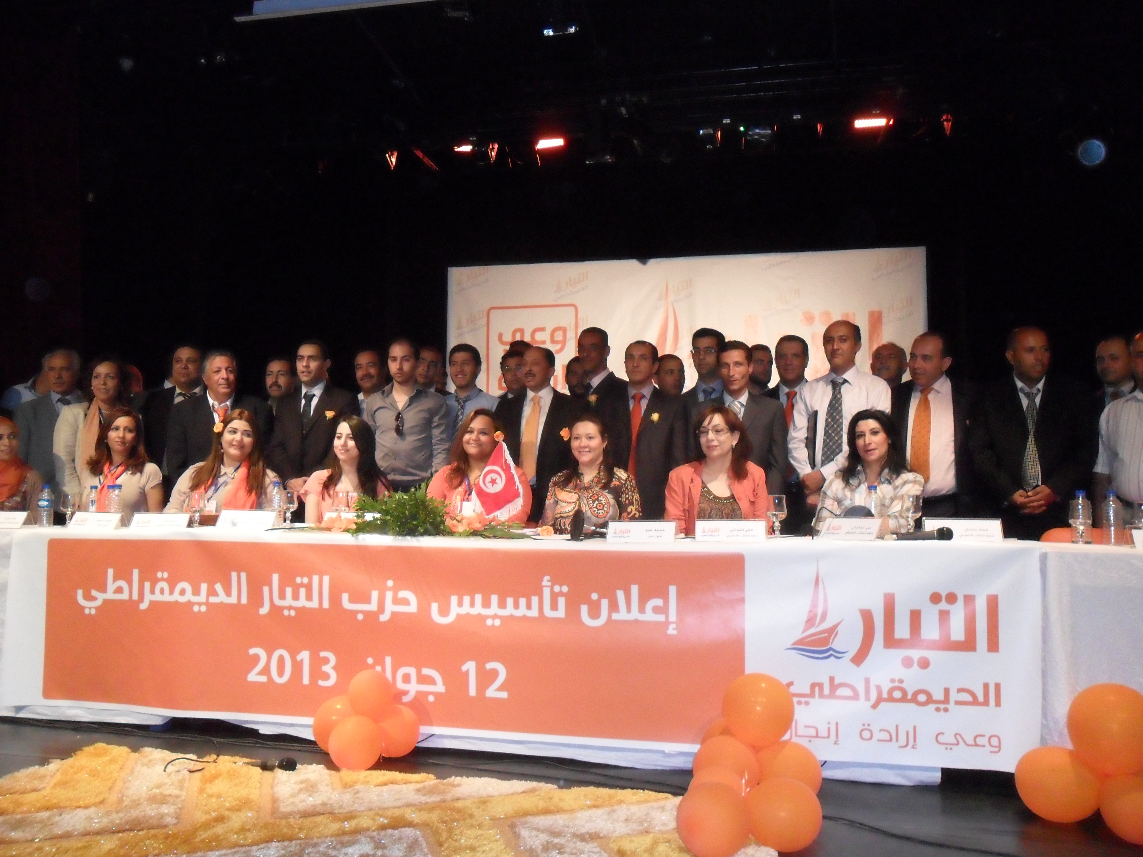 Tunisian Democratic Current militants and leaders during the launching ceremony of their party